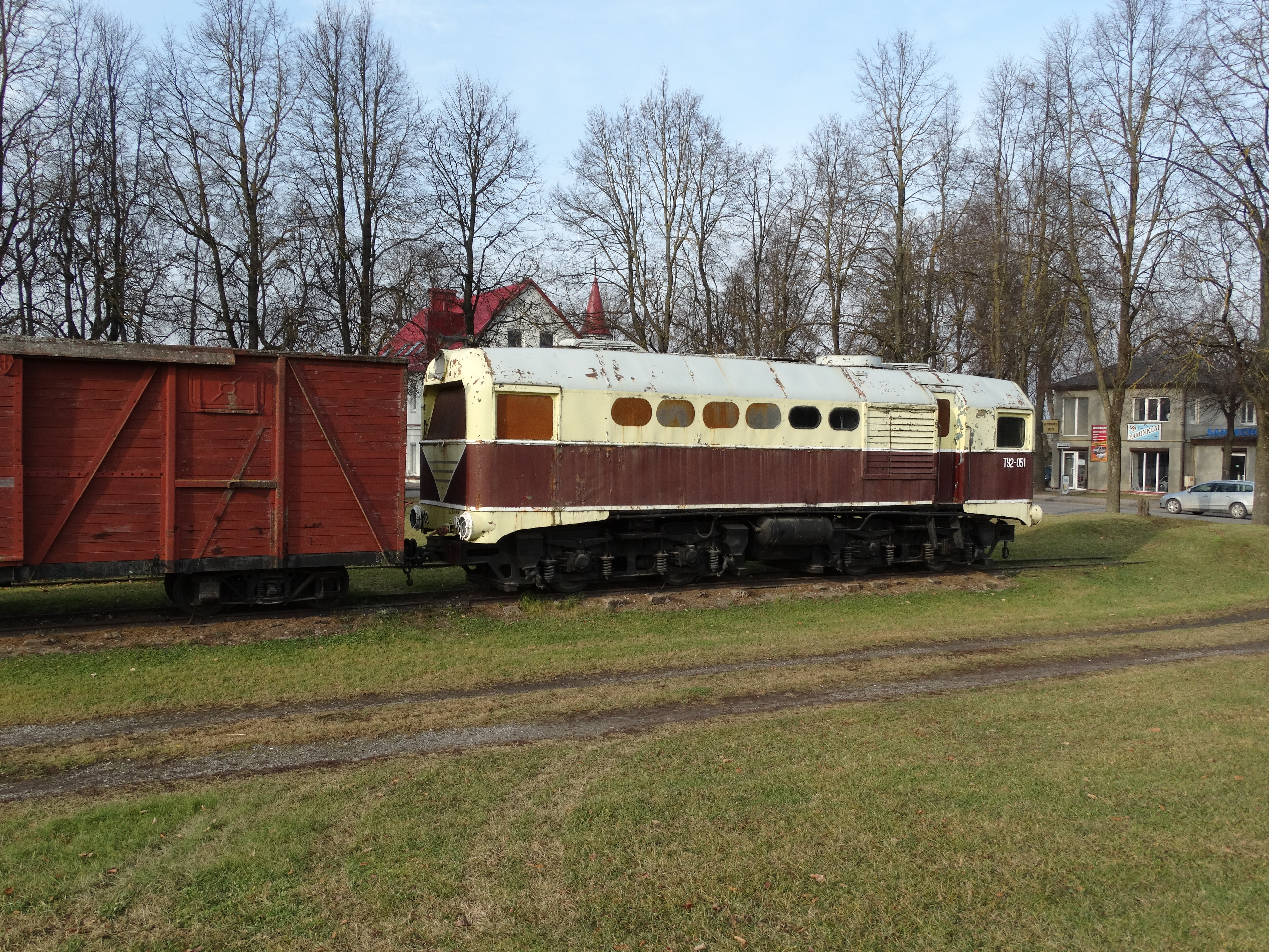 Narrow gauge railway station, Biržai, Lithuania